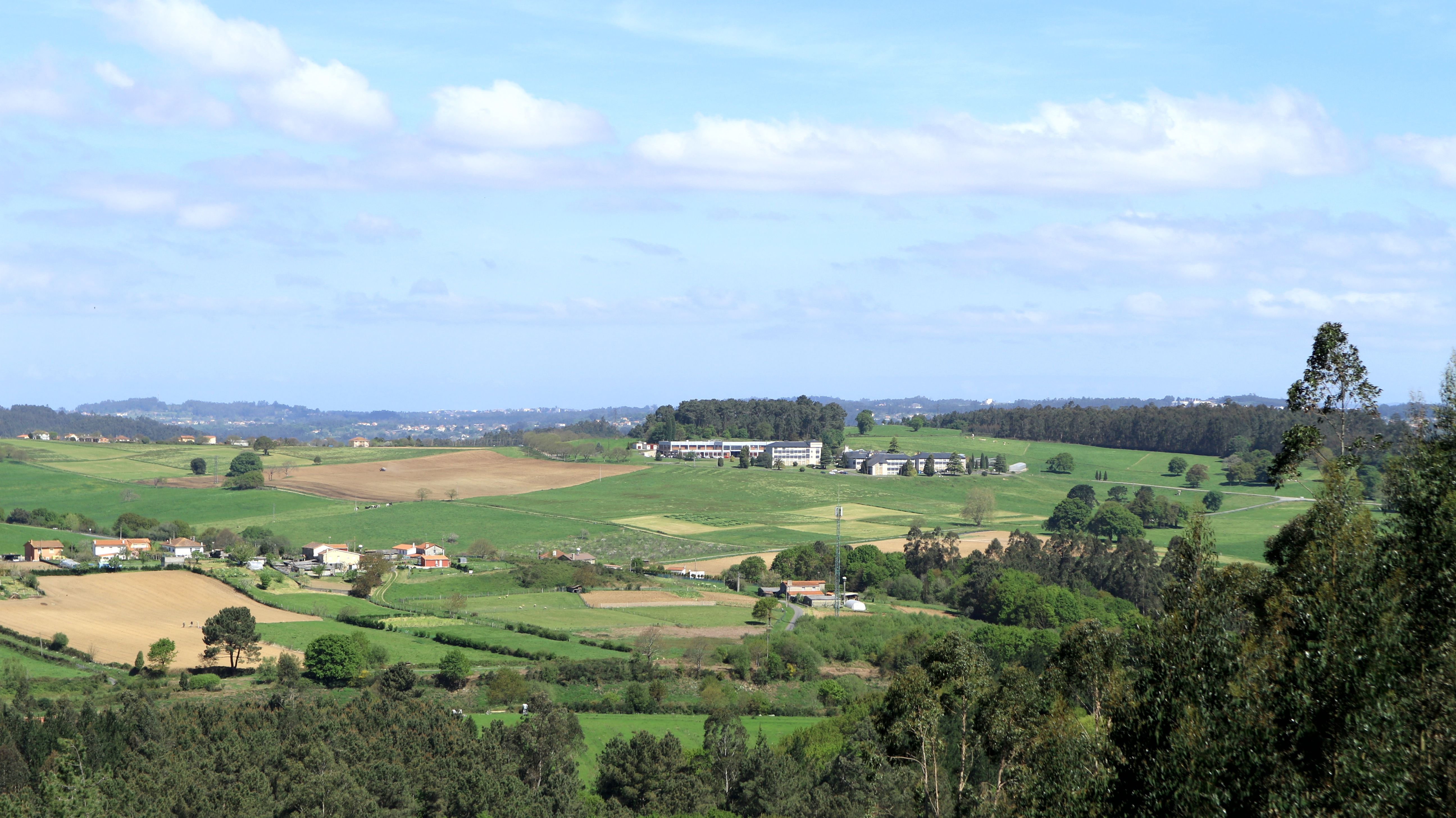 Vista panorámica do CIAM - Centro de Investigacións Agrarias de Mabegondo, en Mabegondo, Abegondo.